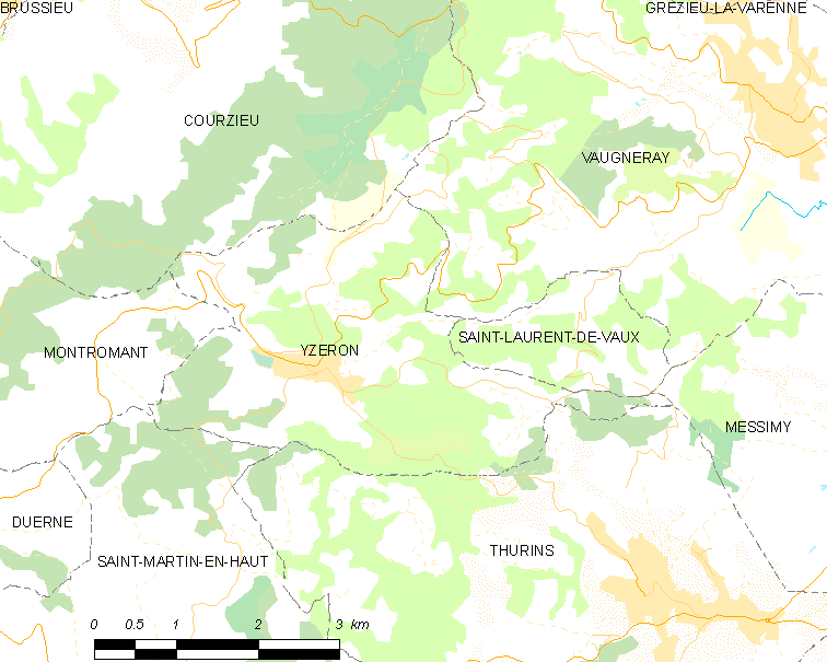 Map of French municipality